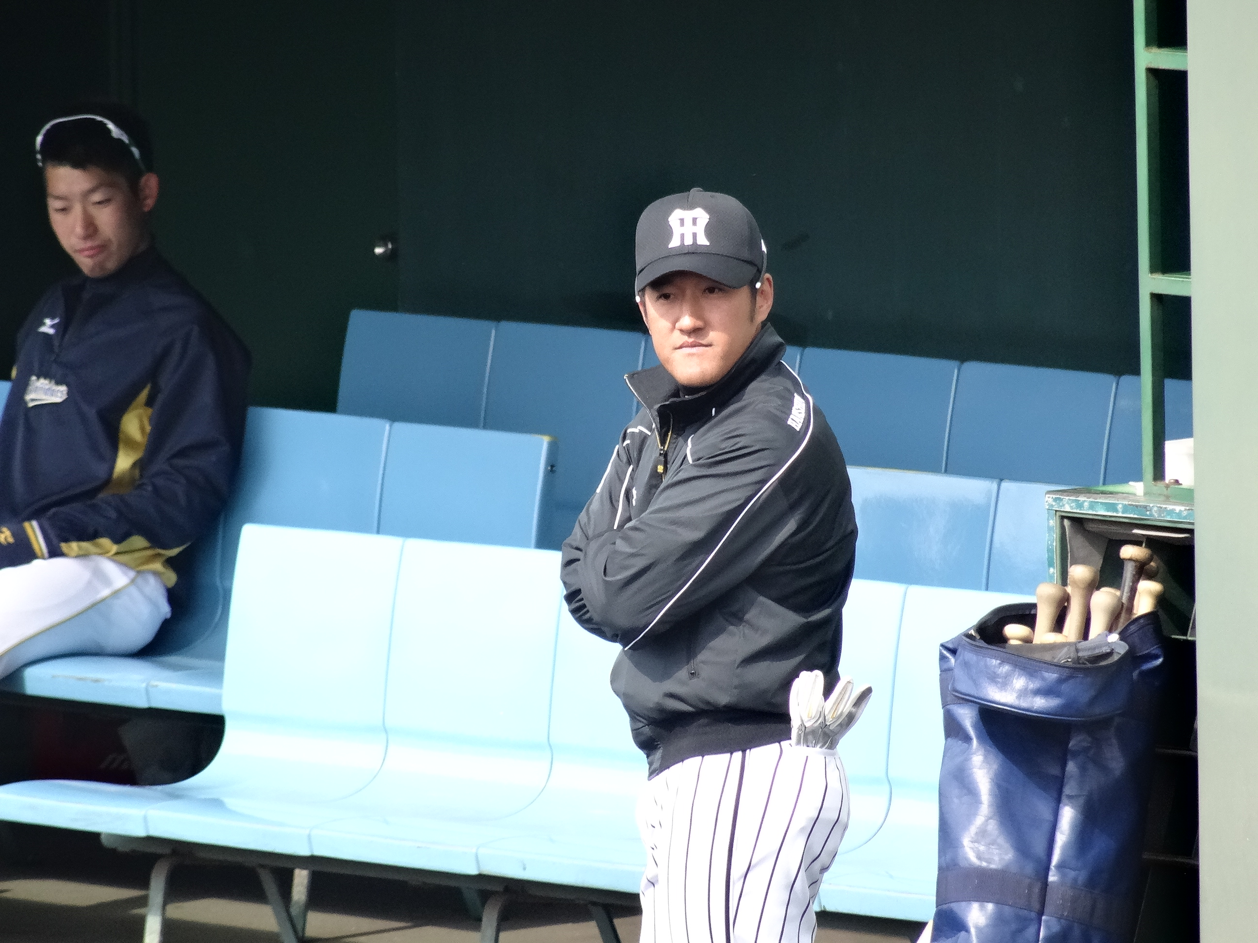 Keiichi Hirano, coach of the Hanshin Tigers, at Hanshin Naruohama Baseball Ground